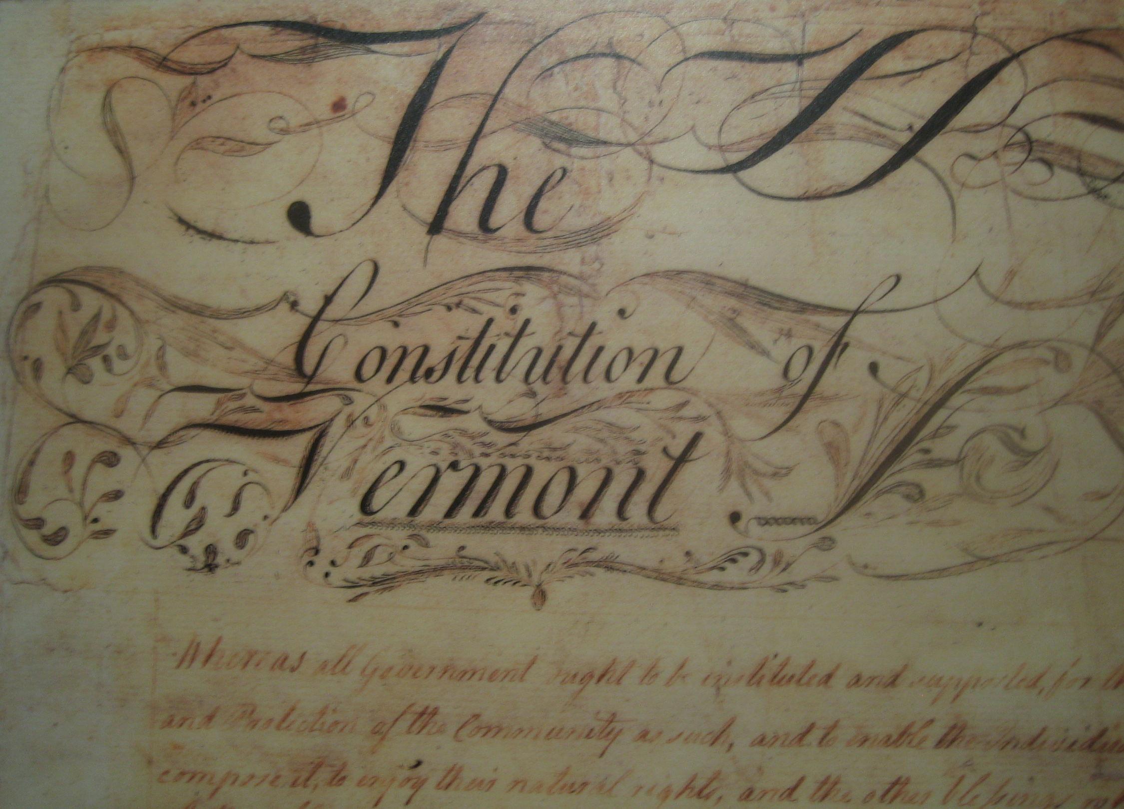 Vermont Constitution vellum copy, 1777.